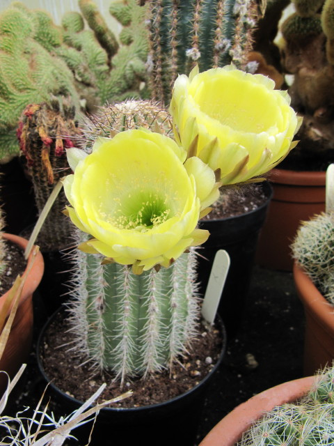 Part of the owner's private cactus collection at Manor Nurseries, Angmering.